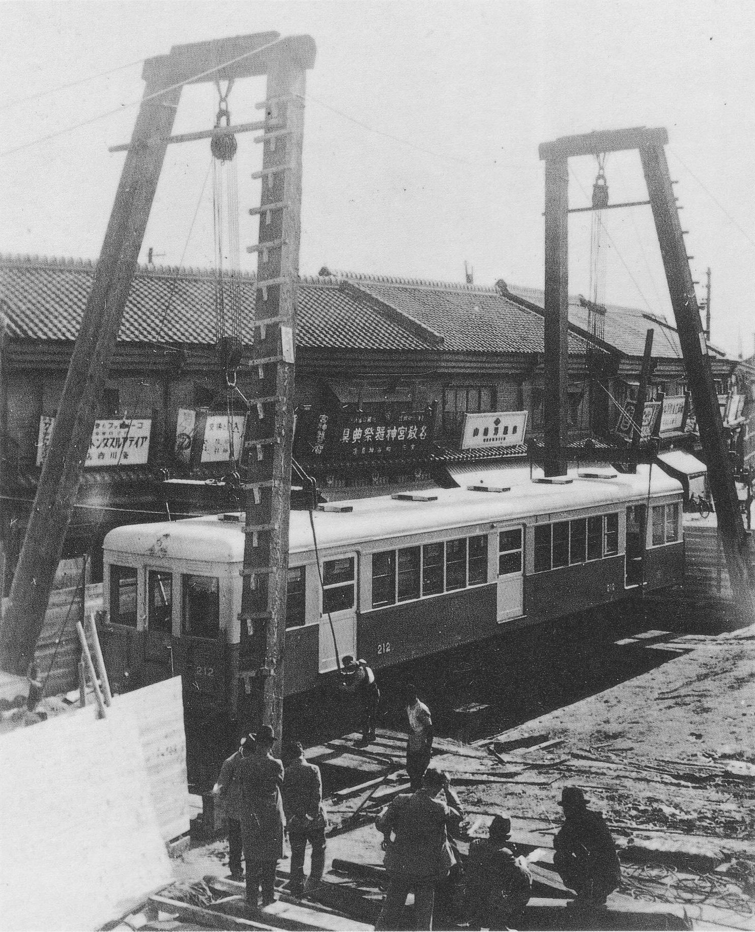 Osaka Municipal Subway #212. taken in 1936～1938.